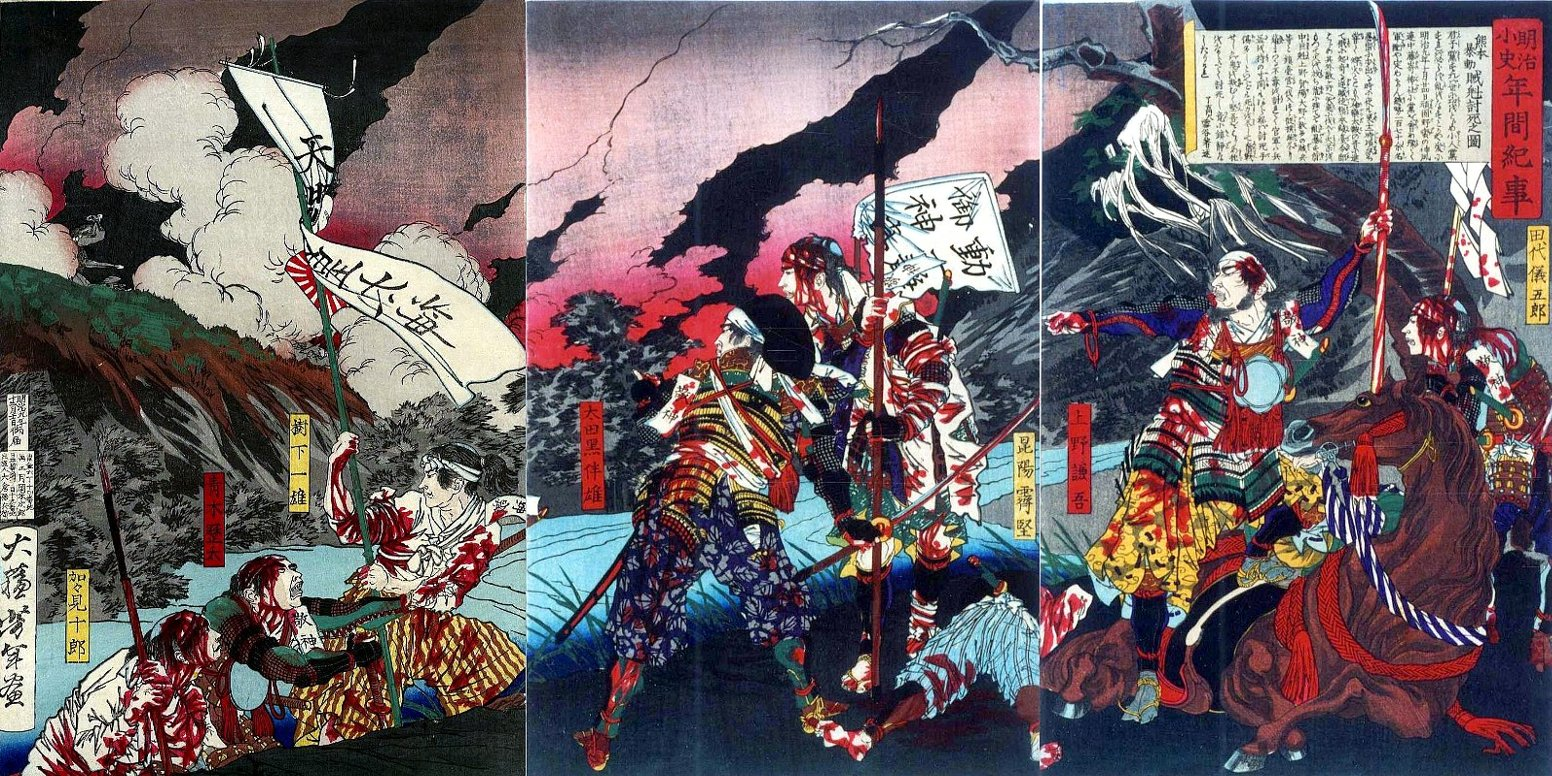 An ukiyo-e of Shinpūren Rebellion.